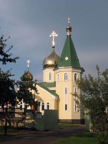 Church of St. Andrew, Minsk